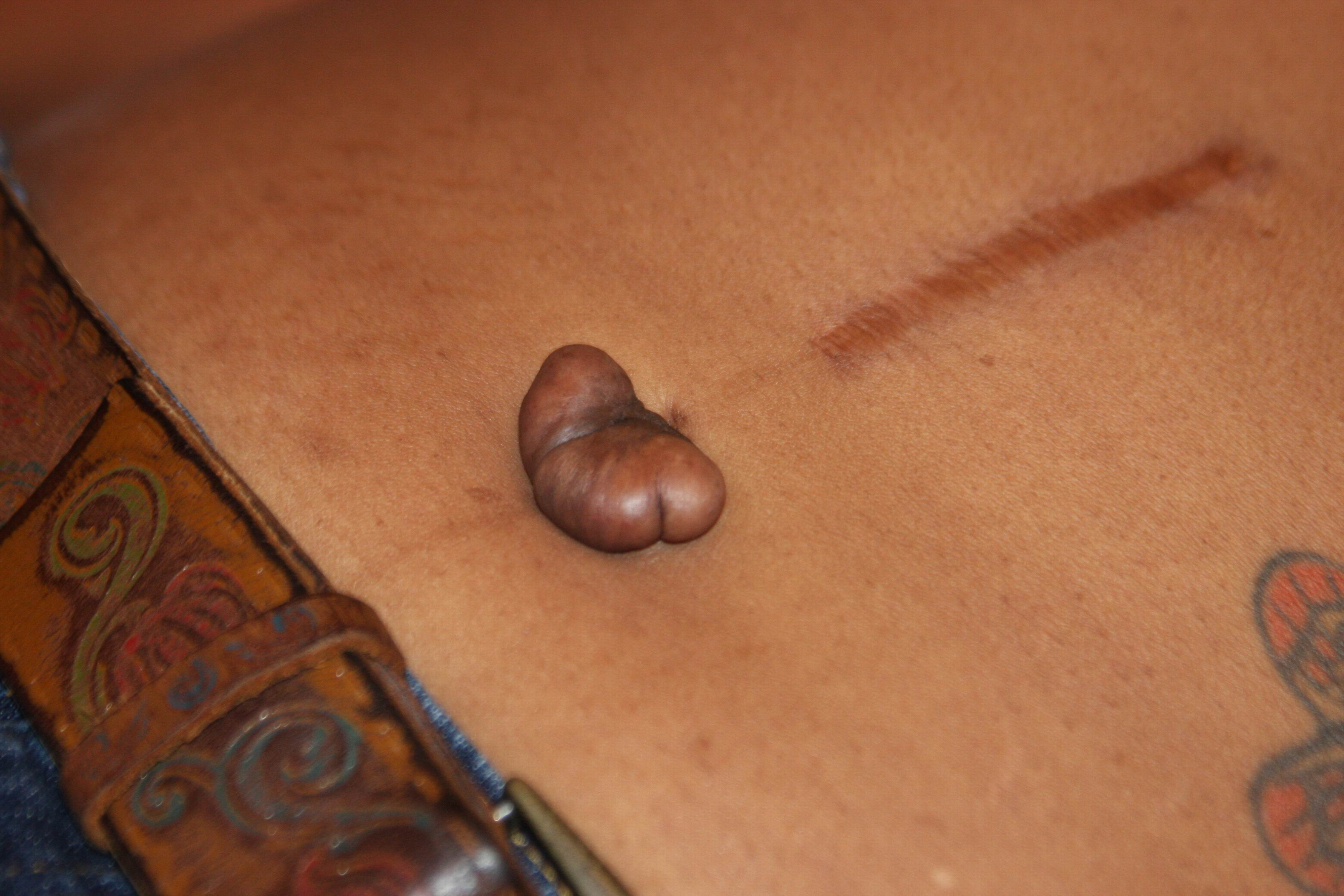 keloid forming at the site of skin piercing